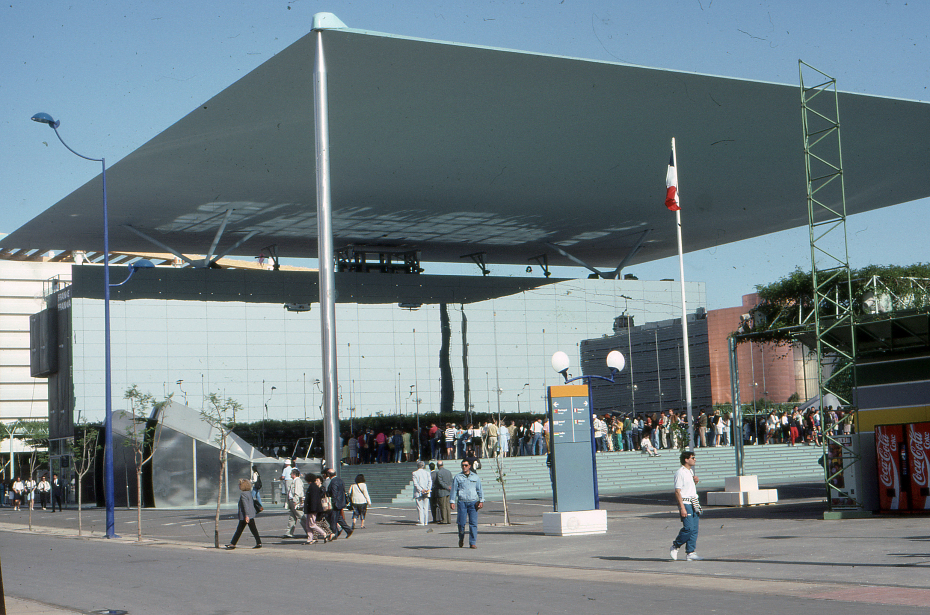 Pavilion of France. Olympus OM10 + Kadachrome 100 ASA